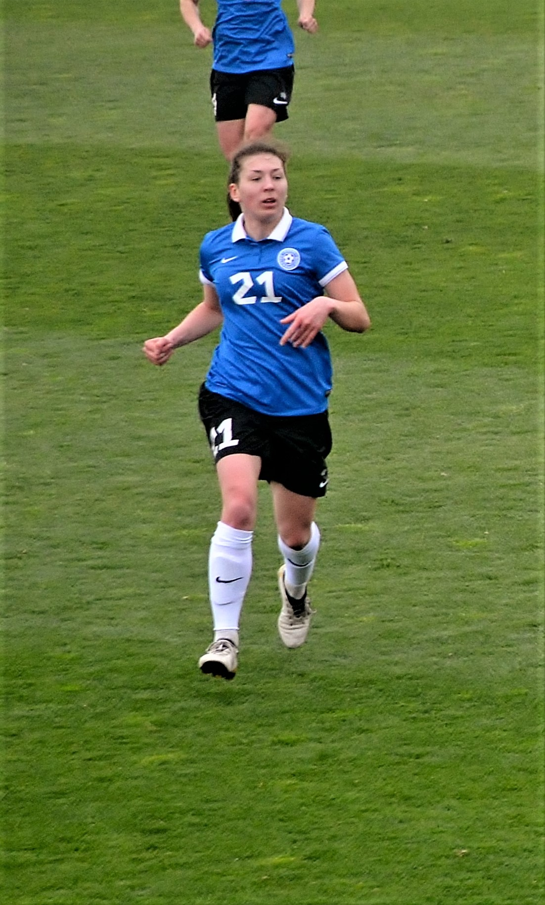 Vlada Kubassova playing for Estonia women's national football team in the friendly away match against Turkey at TFF Riva Facility on 7 April 2018.